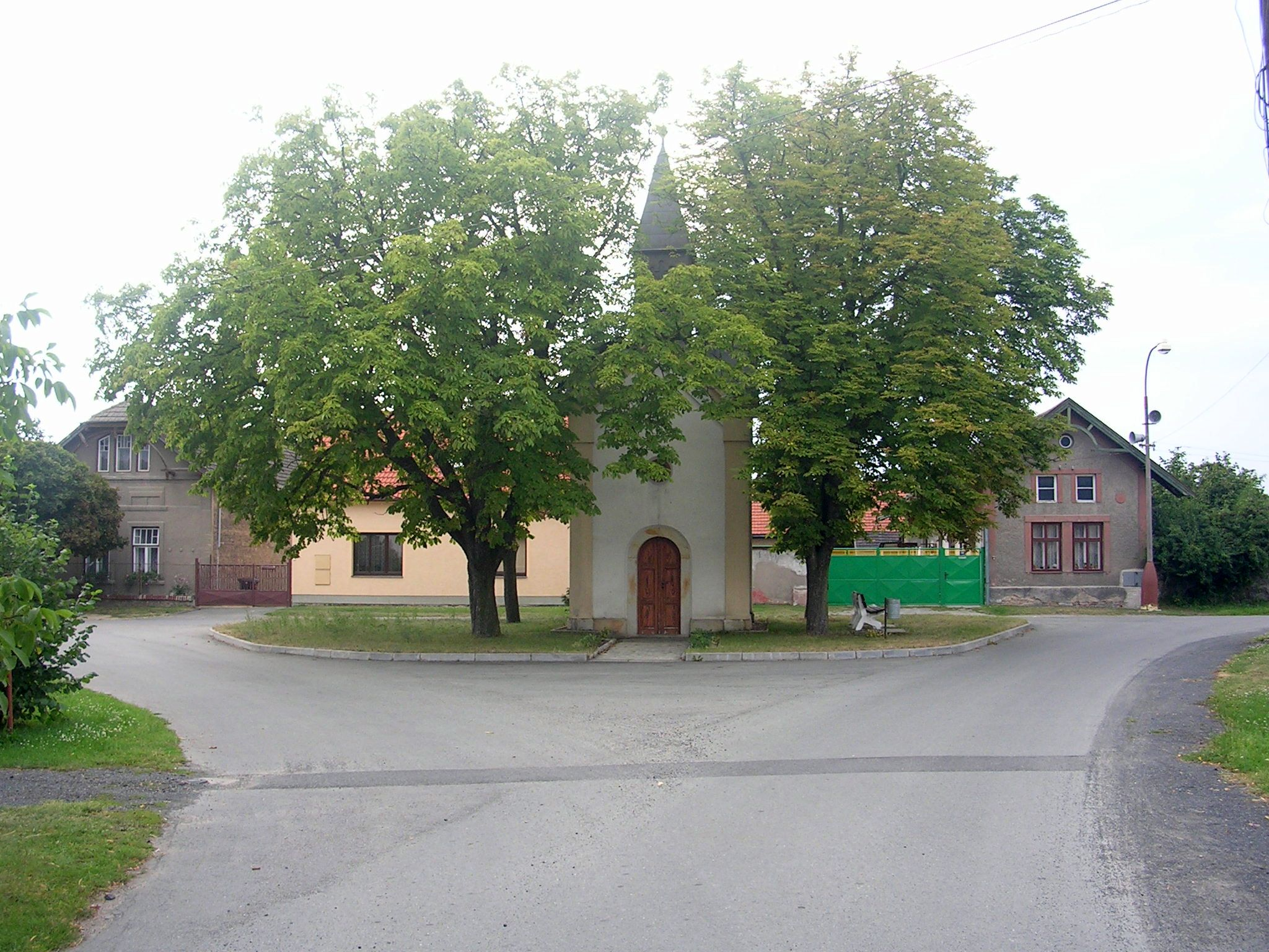 Sokoleč, Nymburk District, the Czech Republic